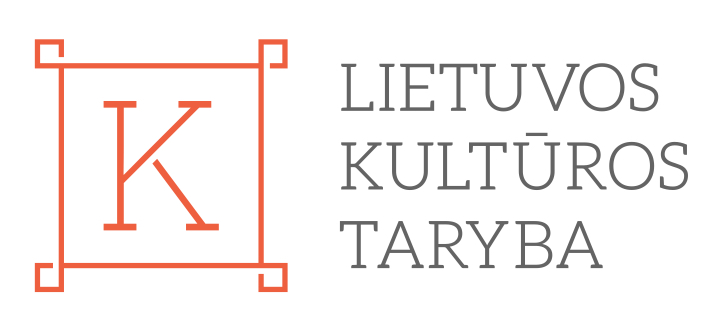 Lietuvos kultūros tarybos logotipas